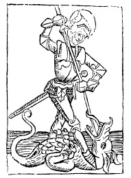 A woodcut print of St George. St George wood carving. Wood carving of St George and the Dragon.